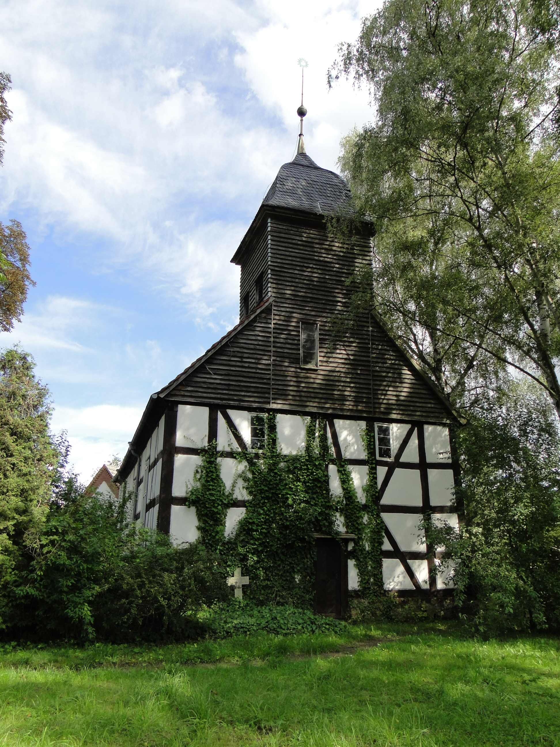 Church in Kratzeburg, district Mecklenburg-Strelitz, Mecklenburg-Vorpommern, Germany